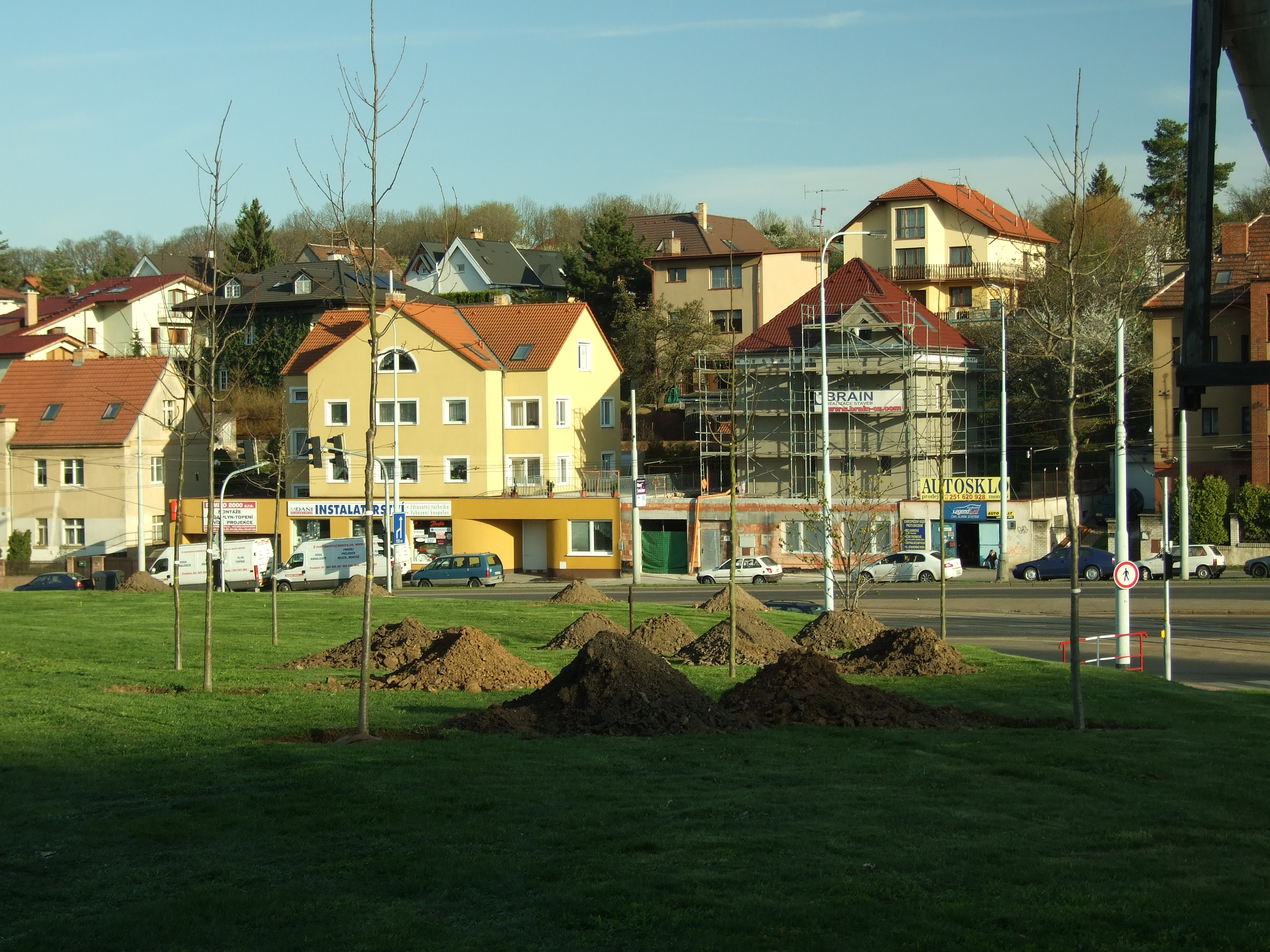 New trees planted in Prague-Řepy during Earth Day 2010, Prague, CZ